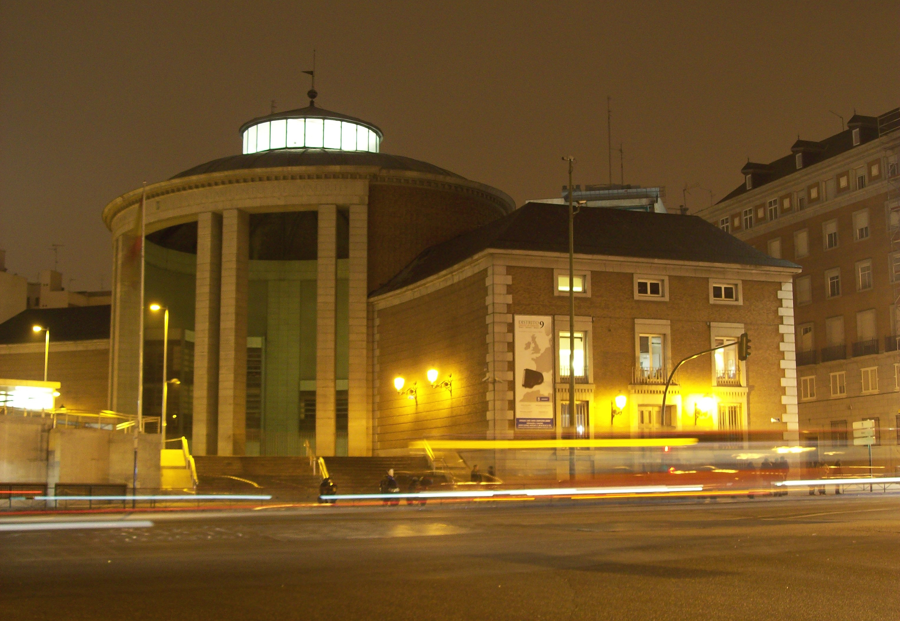 Night view of the Moncloa-Aravaca District Hall in Madrid (Spain), at 1st Plaza de la Moncloa (square).